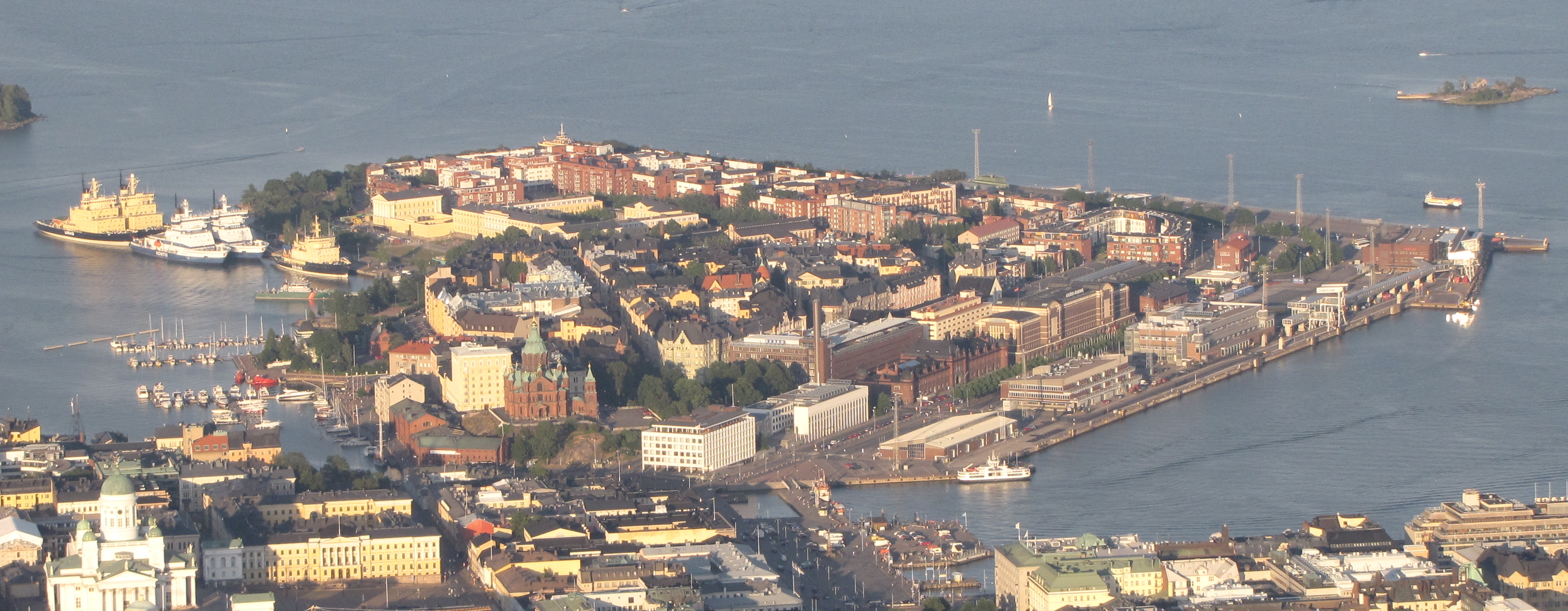 Katajanokka photographed from a hot air balloon. Cropped version.